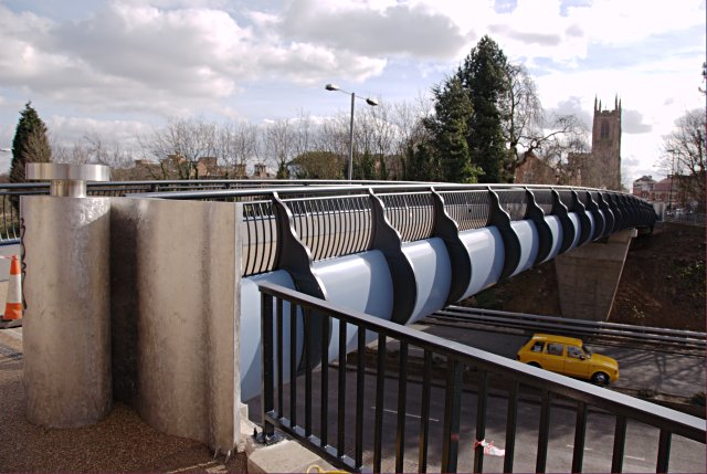 New footbridge over St Alkmunds Way